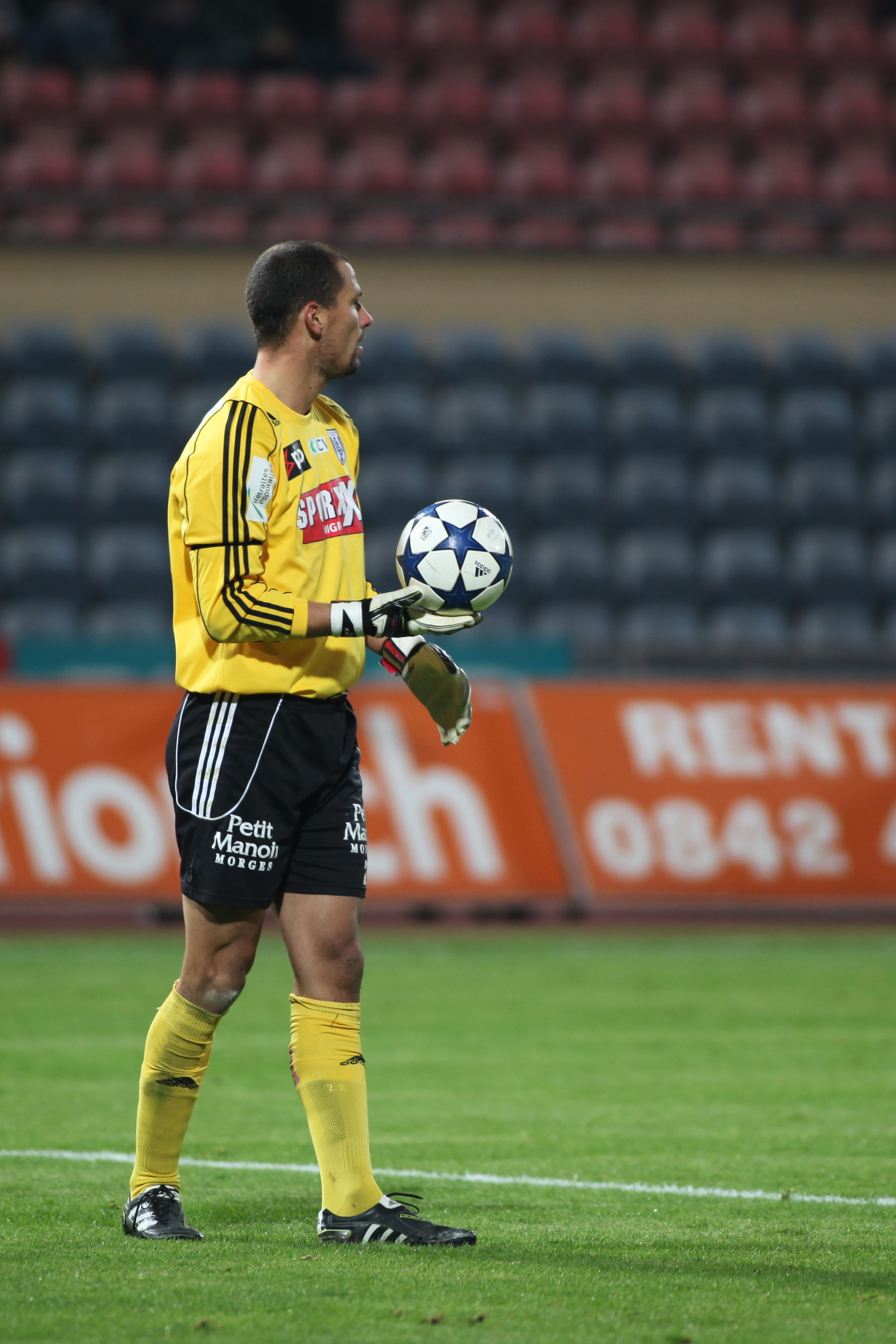 FC Thun vs FC Lausanne on 23 of October 2011 The making of this document was supported by Wikimedia CH. (Submit your project!) For all the files concerned, please see the category Supported by Wikimedia CH.